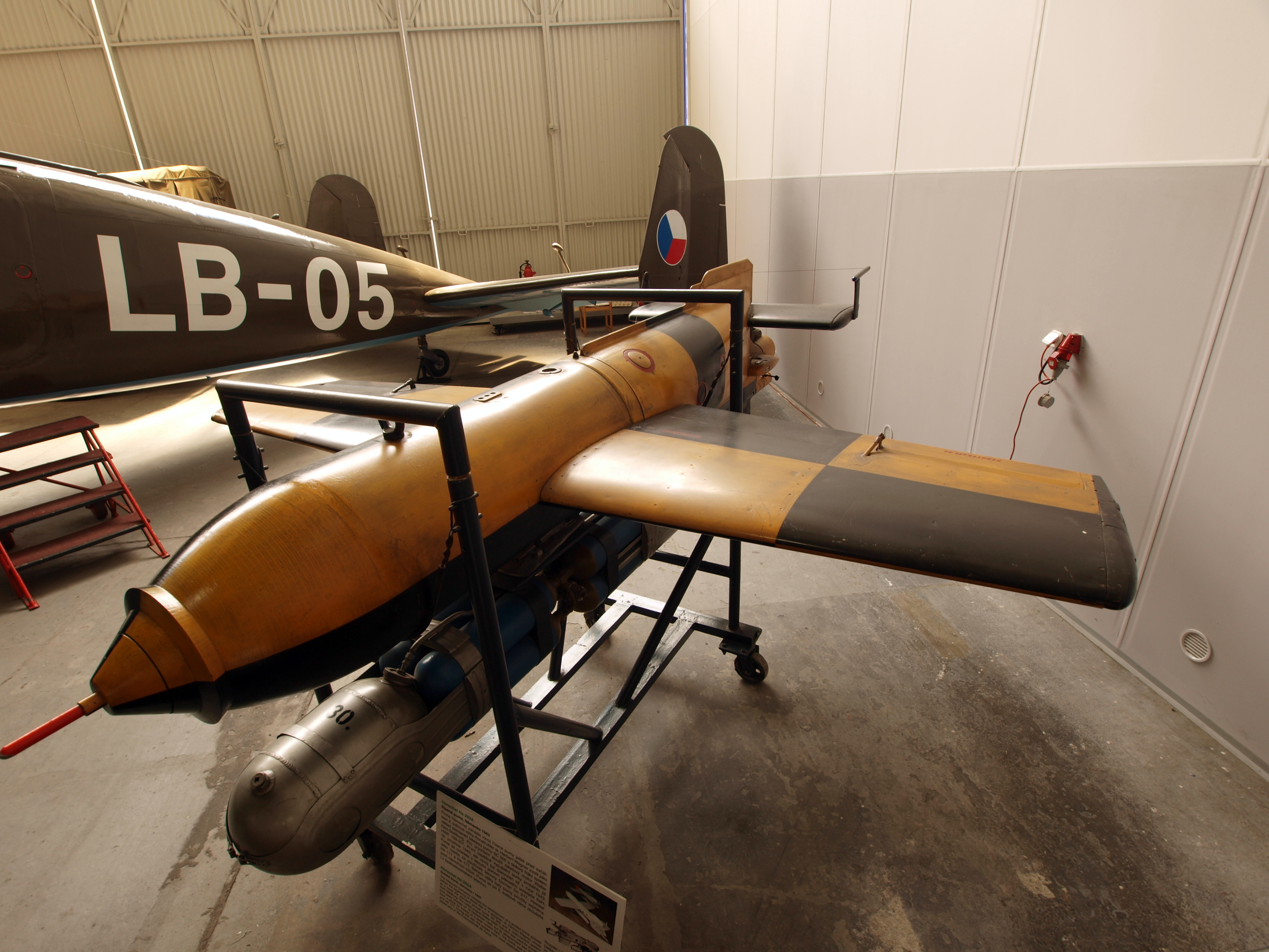 Henschel Hs 293A with HWK 109-507 rocket engine. Photograph taken without a tripod (was not allowed!)